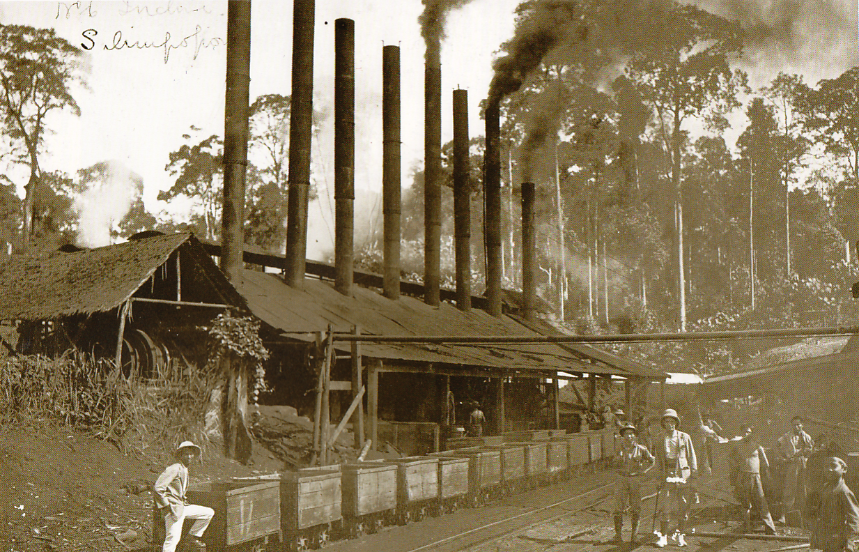 Silimpopon, Main Boiler House and winding engine to #2 incline (1922)